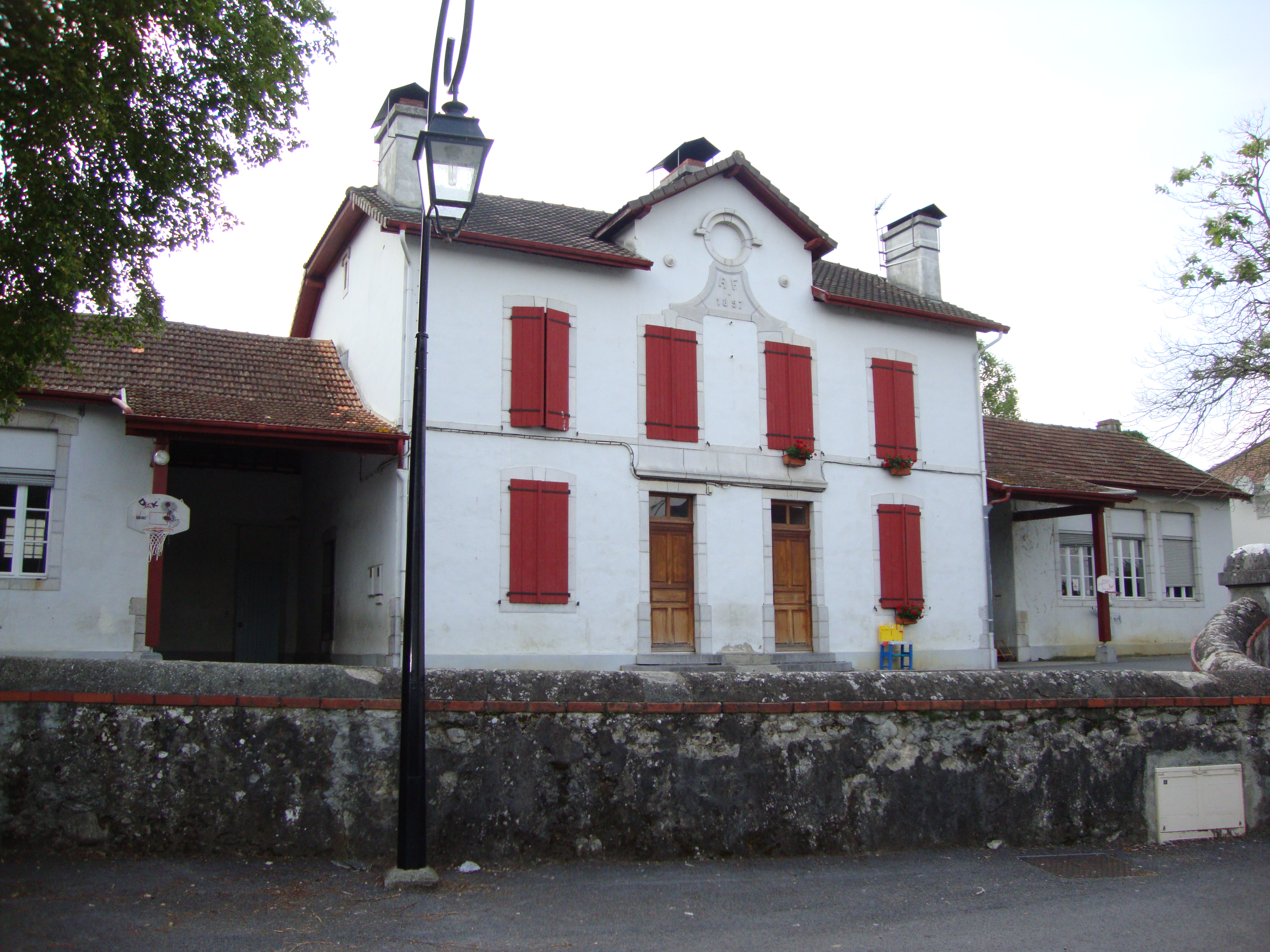 Charritte-de-Bas (Pyr-Atl, Fr) école.